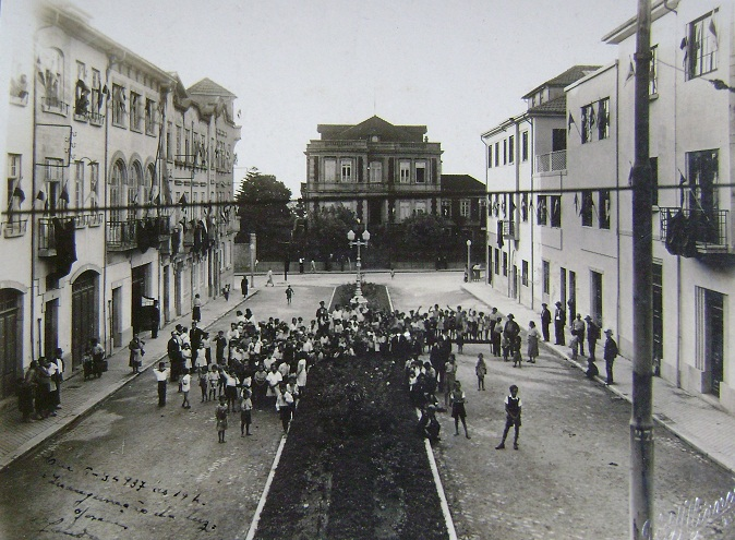 Photo rue Júlio Lima